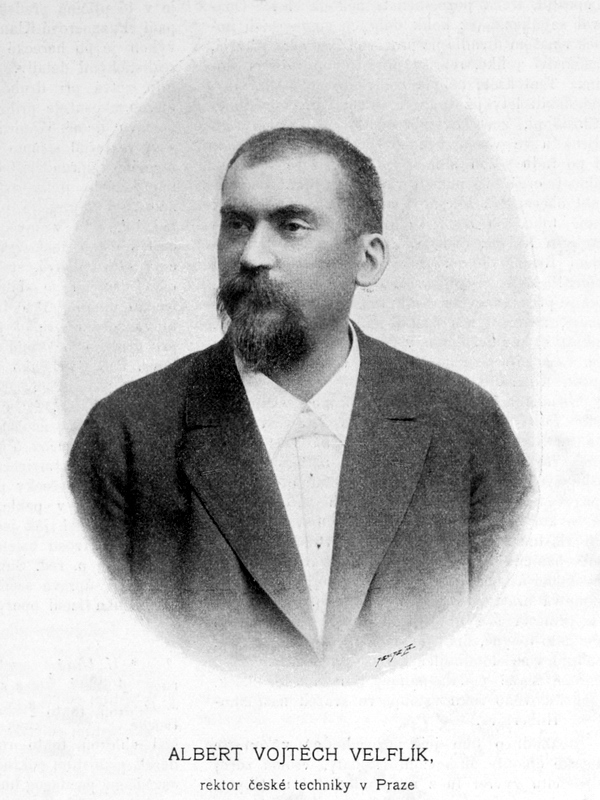 Albert Vojtěch Velflík (1856–1920) was a Czech bridge engeneer and rector of the Czech Technical University in Prague